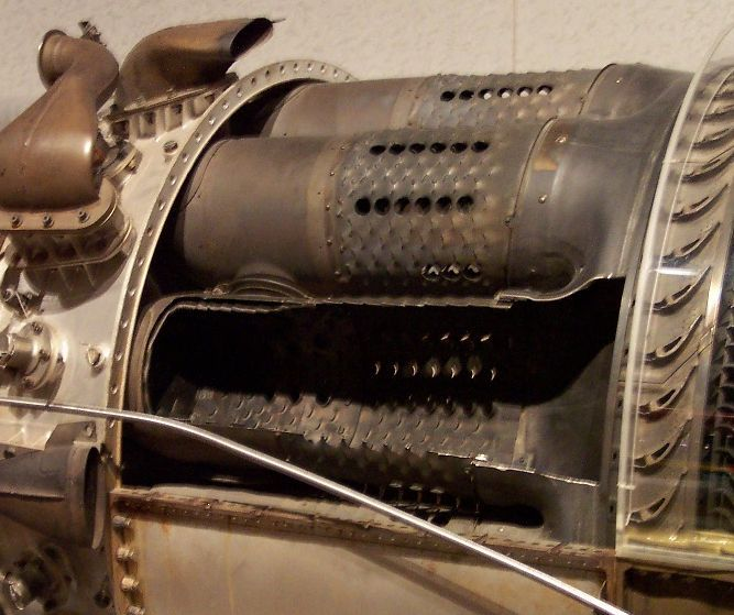 The combustion chamber of a GE J79 turbojet engine.